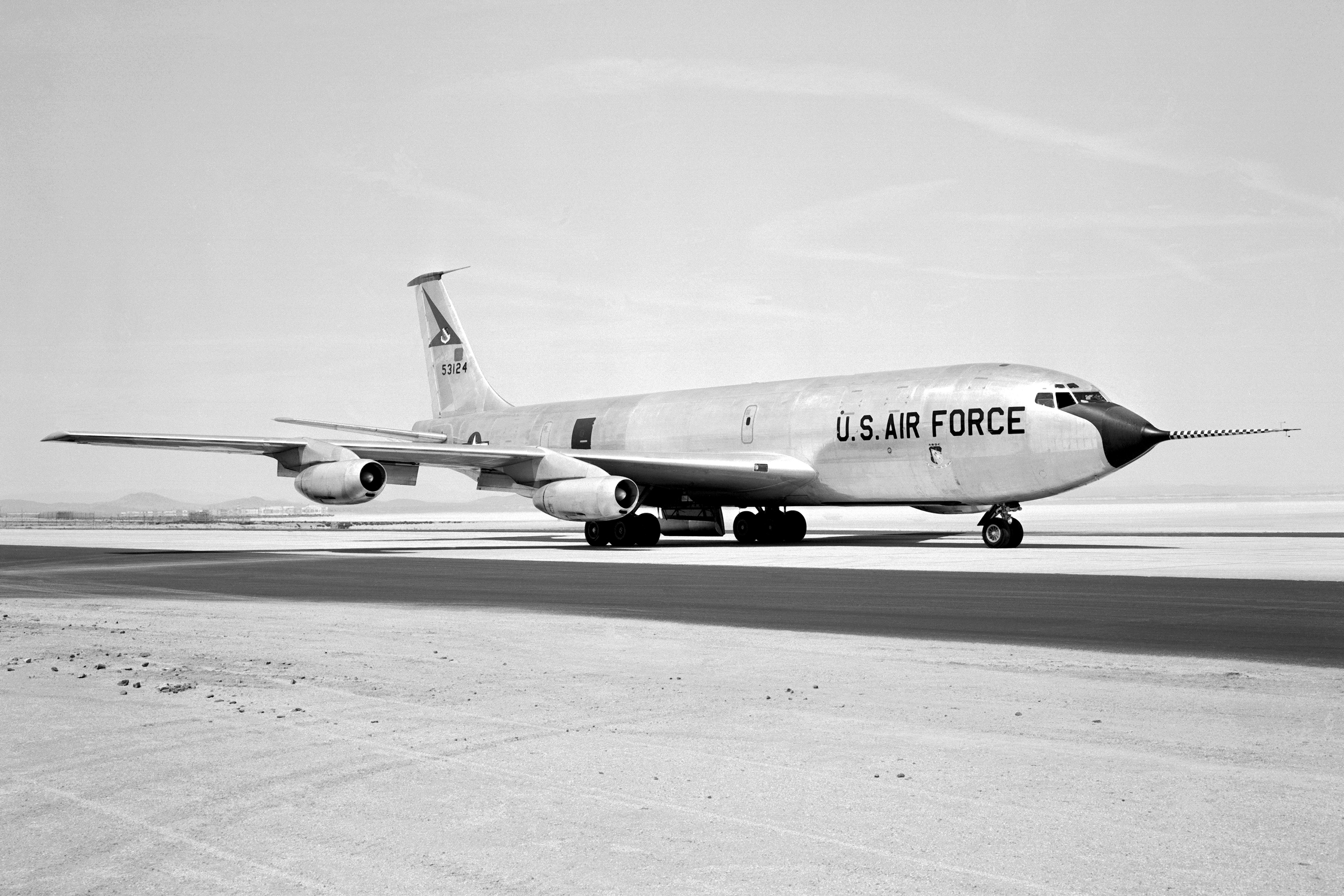 A Boeing KC-135A, serial number 55-3124, used in NASA's reduced gravity experiments.